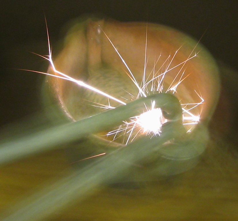 Flint spark lighter being struck. Photo taken with slow shutter.